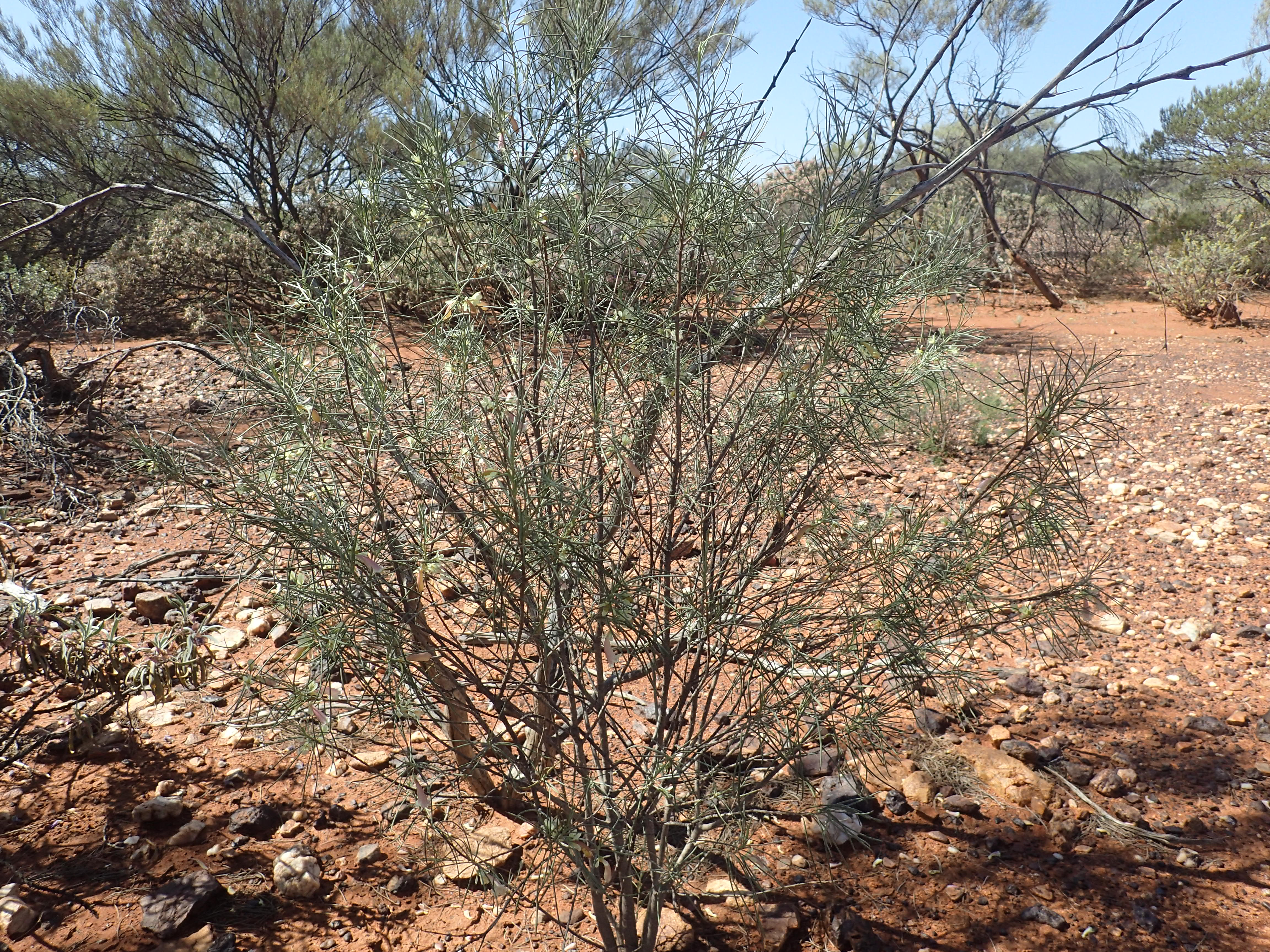 Eremophila oppositifolia angustifolia growing 3km south of Meekatharra